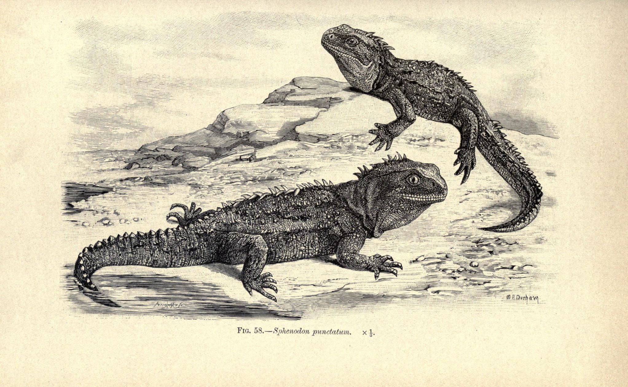 Amphibia and reptiles, by Hans Gadow.